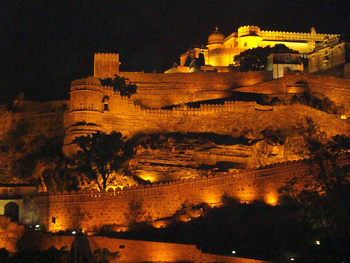 This pic is click when the fort is illuminated. The Kumbhalgarh fort is the birthplace of Maharana Pratap - the grear merwar warrior. The fort is illuminated each night for 30 mins afterwhich there is complete darkness and the fort dissappears in the shadow of the night